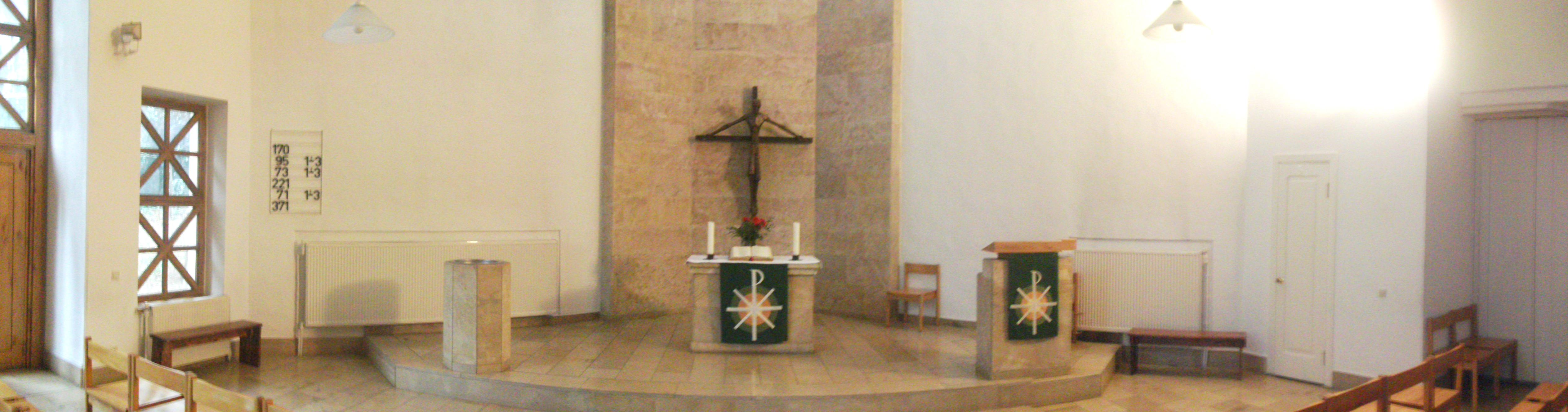 Tbilisi new Lutheran church